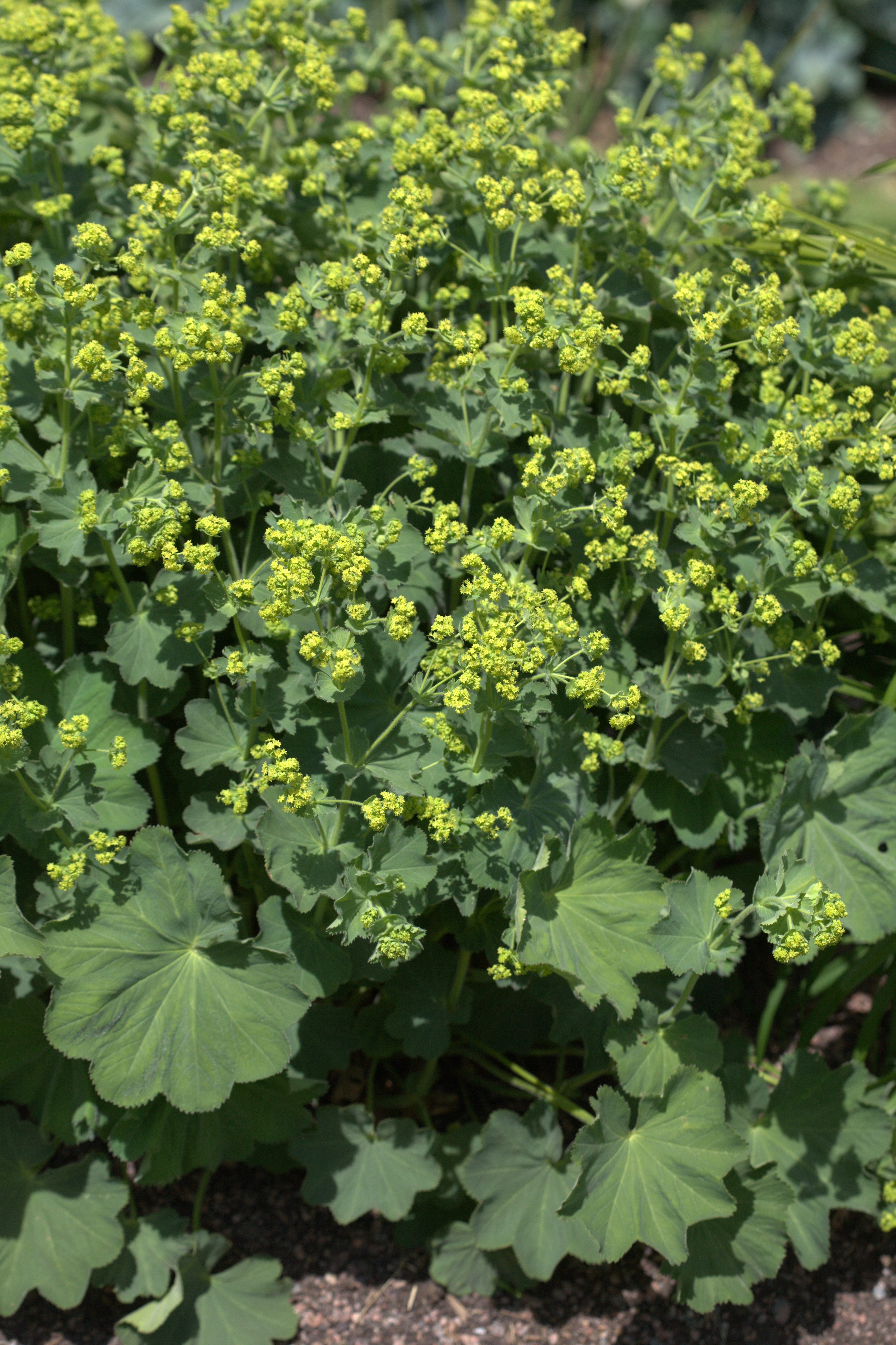 Photo taken at Gothenburg botanical garden. Specimen id: 2003-1963 p G Plant collected in 2003 from a garden in Säve